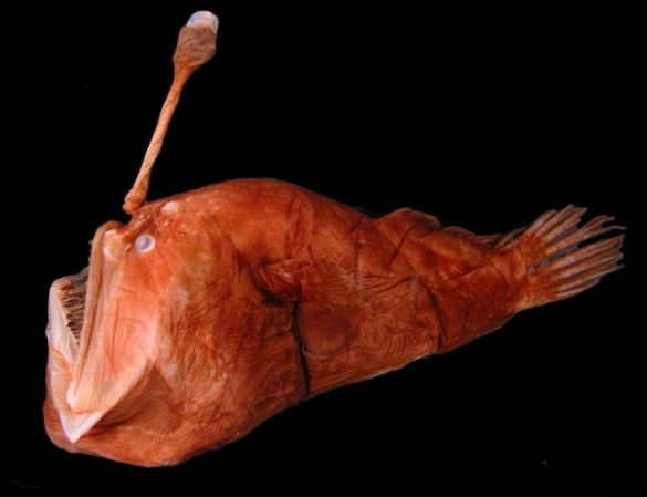 Cut-out from original shown below